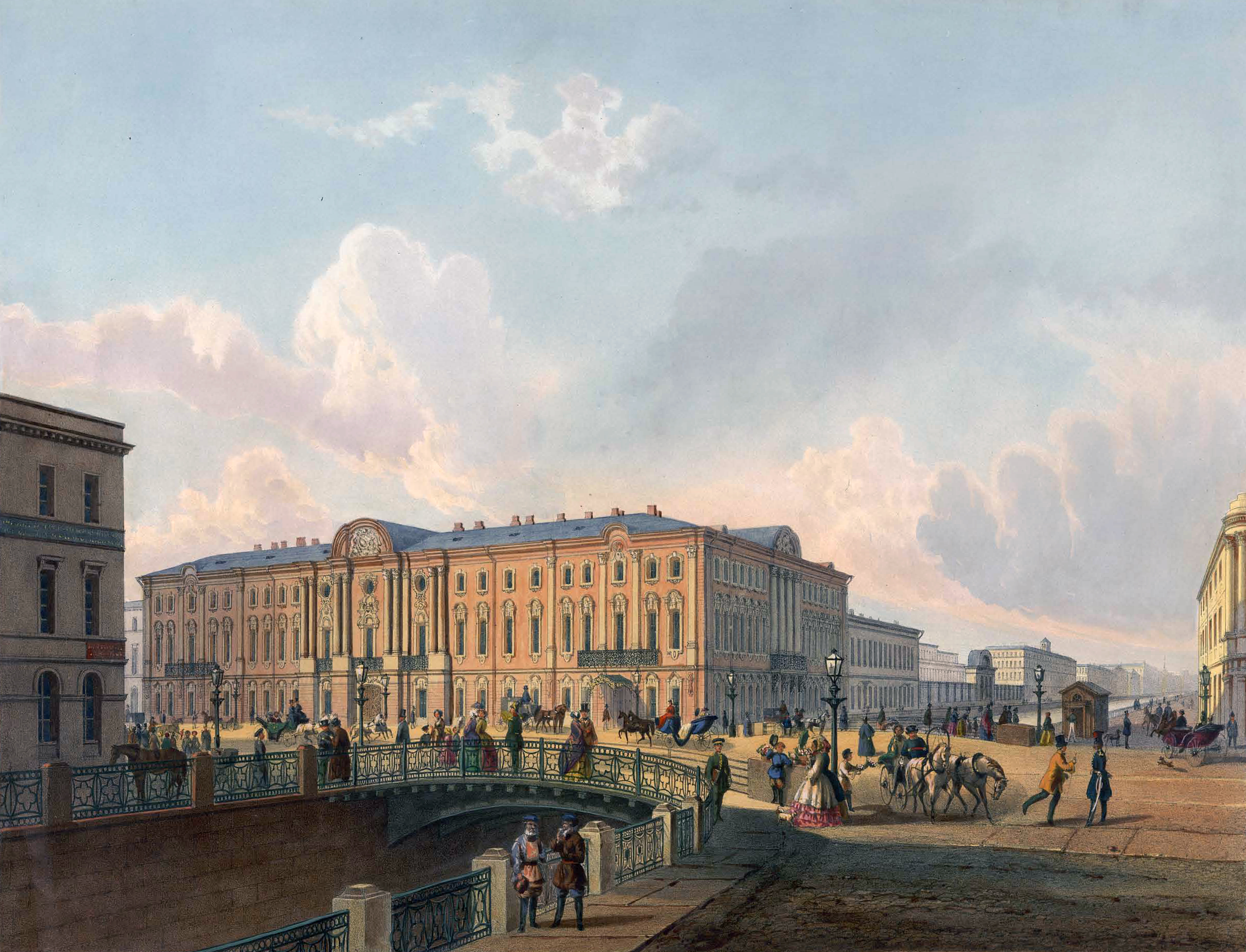 Police bridge in St. Petersburg in the 19th century, lithograph after a drawing by Charlemagne